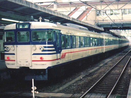 East Japan Railway Company, EMU type 115 Original Design of Niigata Branch at Takasaki Sta.